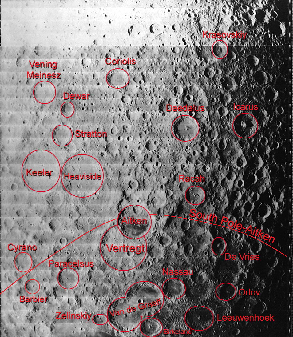 Labelled view of Aitken crater and surrounding features on the Moon. Taken by Lunar Orbiter II.